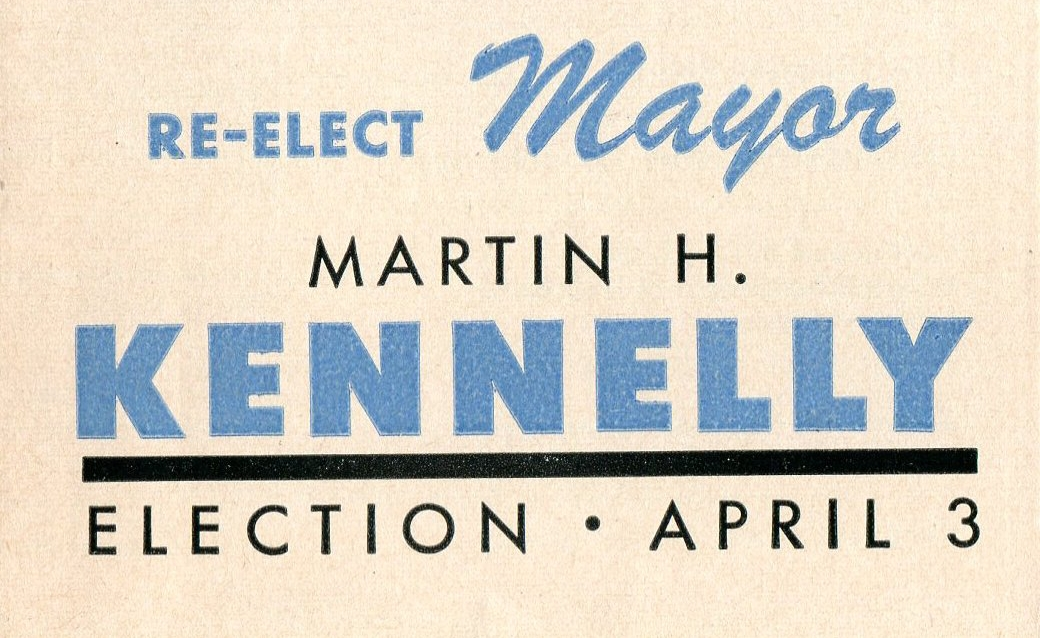 Reflect Kennelly